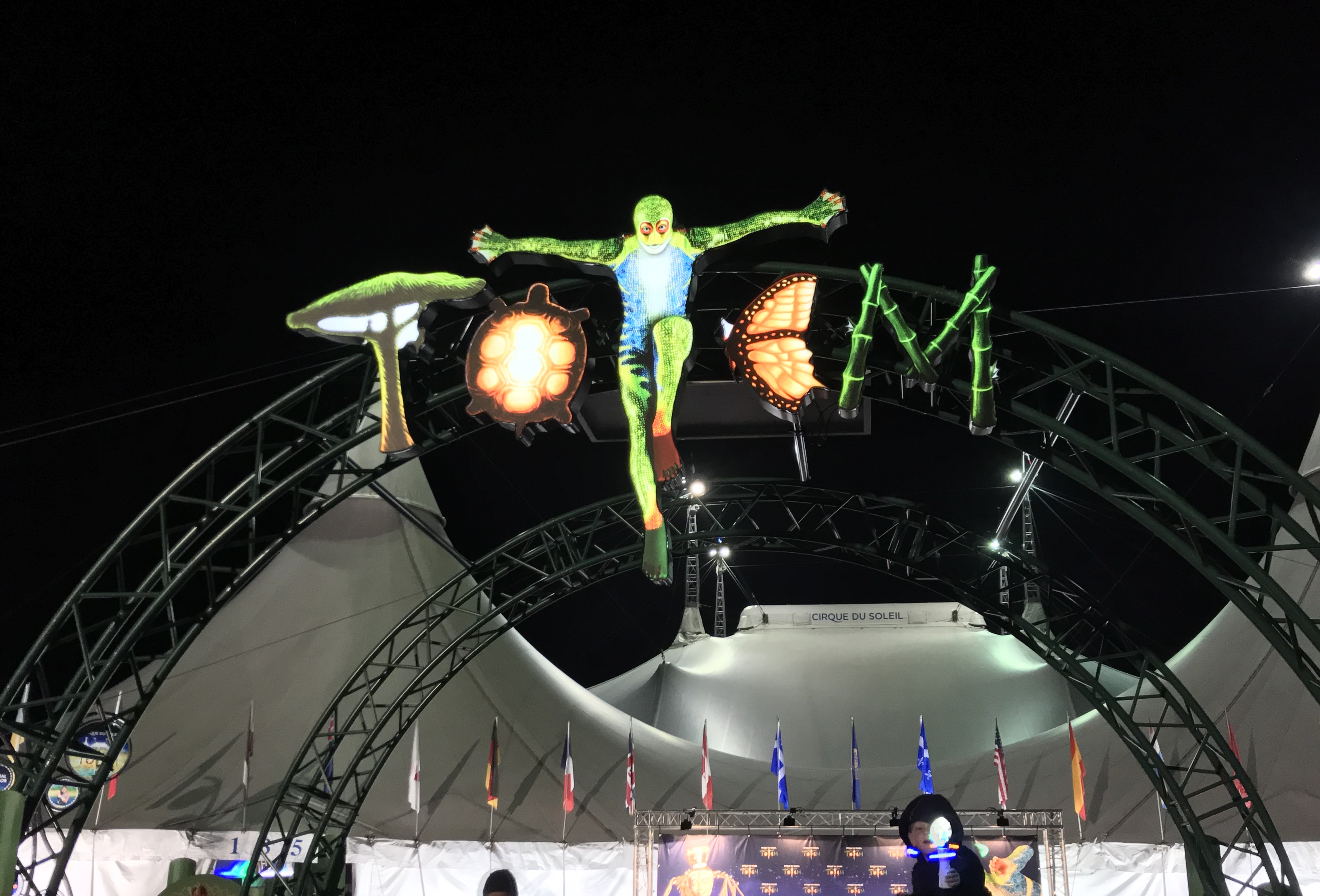 The logo of Cirque du Soleil's TOTEM, performed in Paris